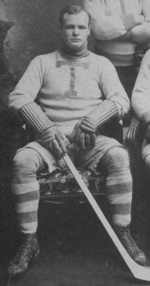 Canadian ice hockey player Roland "Rowley" Young with the Toronto Professionals in 1907.